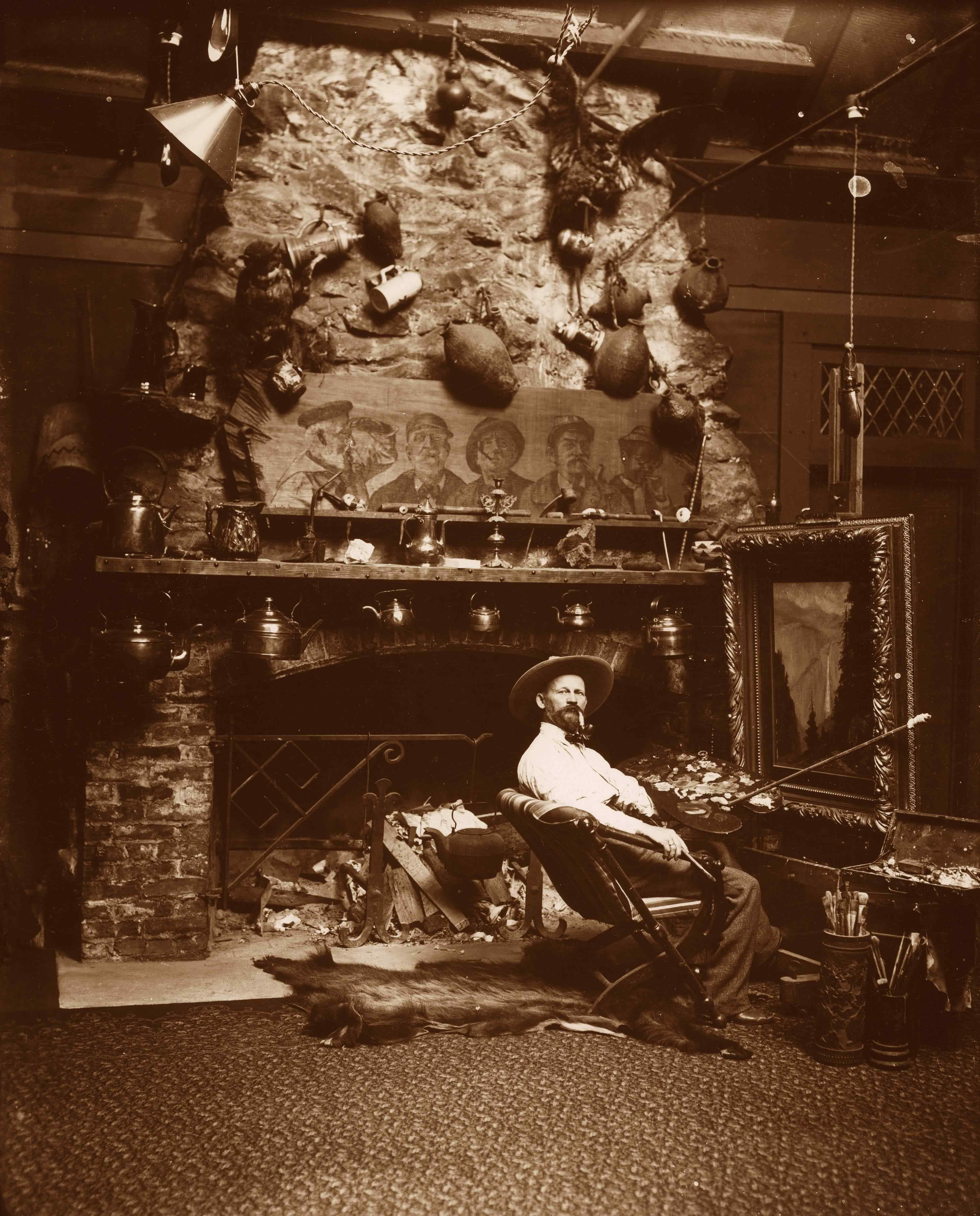 "6 1/2"" X 8 1/2""; GLASS NEGATIVES. Yosemite Museum Collection 10243. Shows California artist Chris Jorgensen in his Yosemite studio in front of the fireplace--easel up in front of the chair he is sitting in--mantel of fireplace decorated with the figures of men and various size teakettles and mugs.